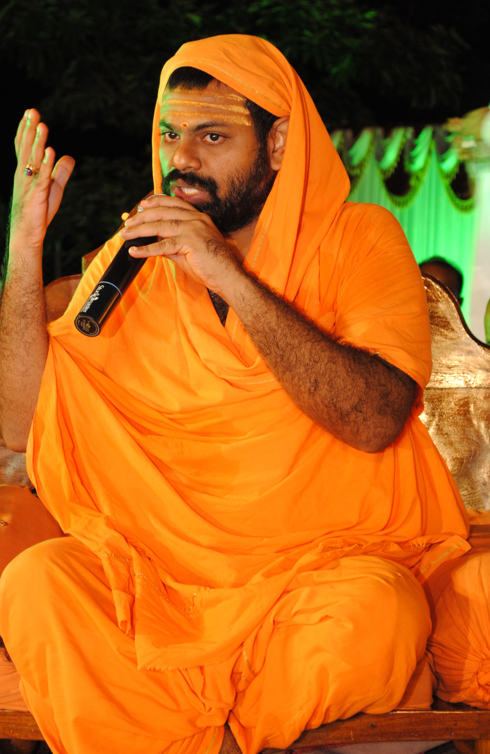 swamiji